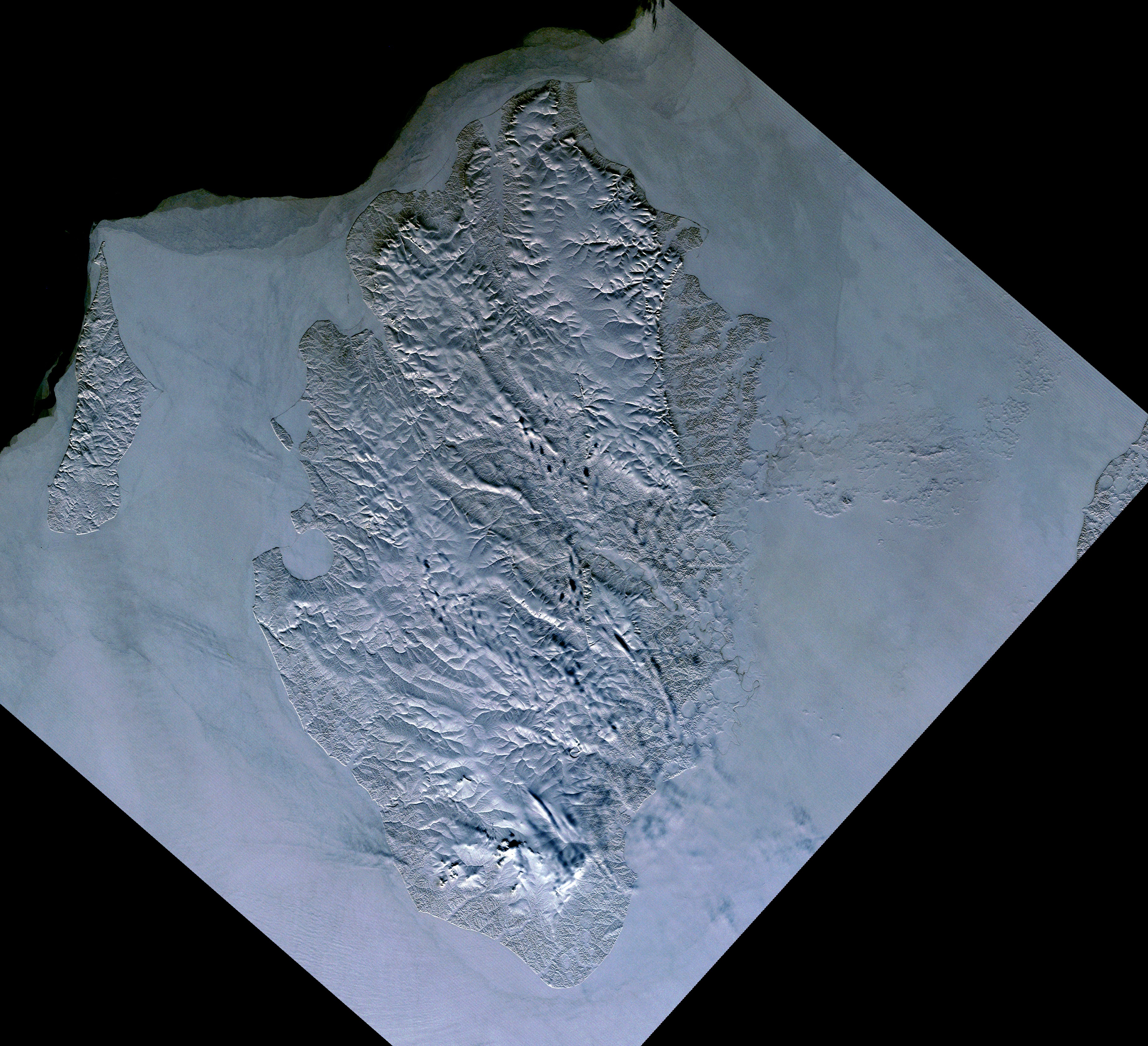 Kotelny island, Russia, Landsat-1 satellite image, sensor MSS, 1973-03-21, spatial resolution 60 m